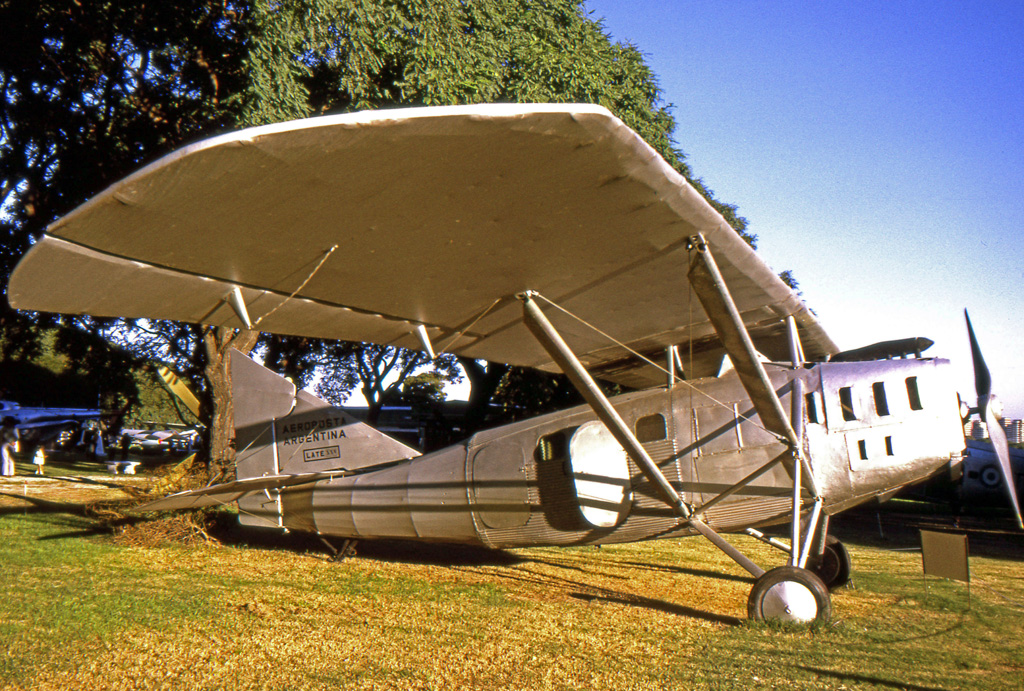 Latecoere 25 3R LV-EAB in the markings of Aeroposta Argentina exhibited in the museum at Buenos Aires Aeroparque in 1975.